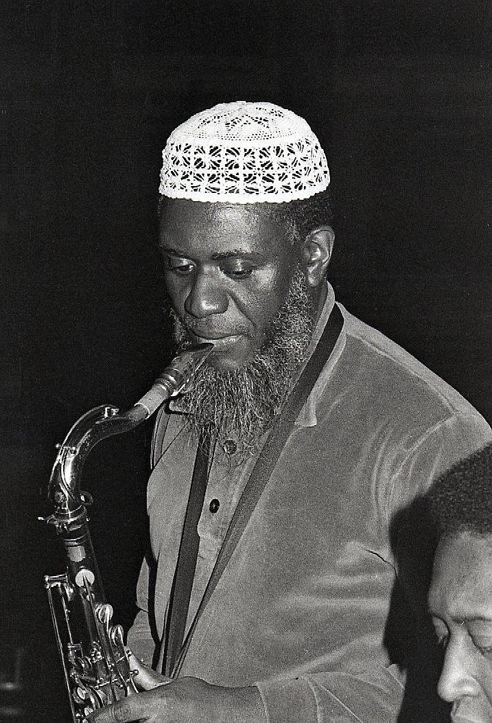 Pharoah Sanders (Warsaw, Poland, 1981), an American jazz musician (photographed by Wojciech Soporek)